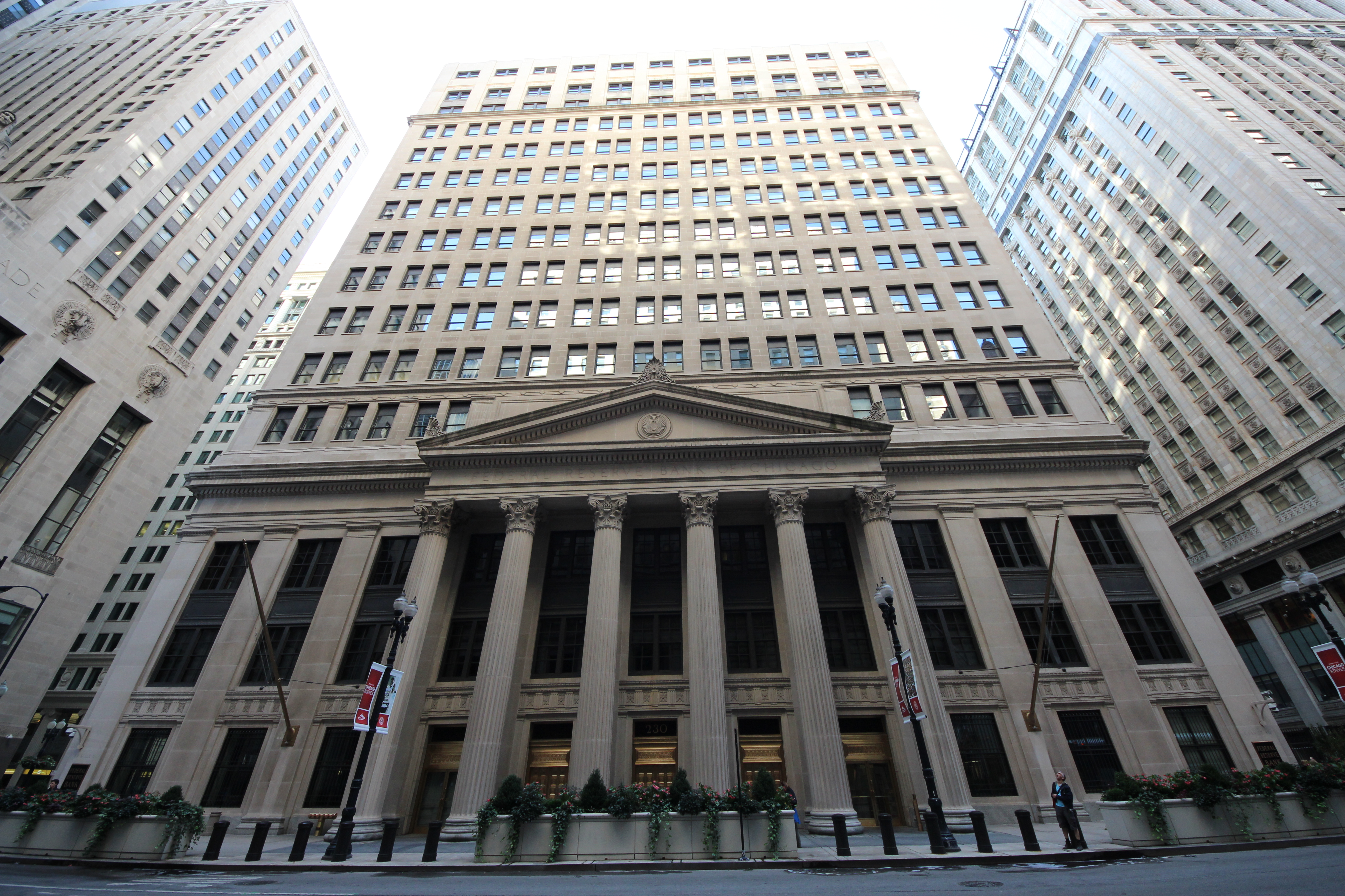 Federal Reserve Building of Chicago